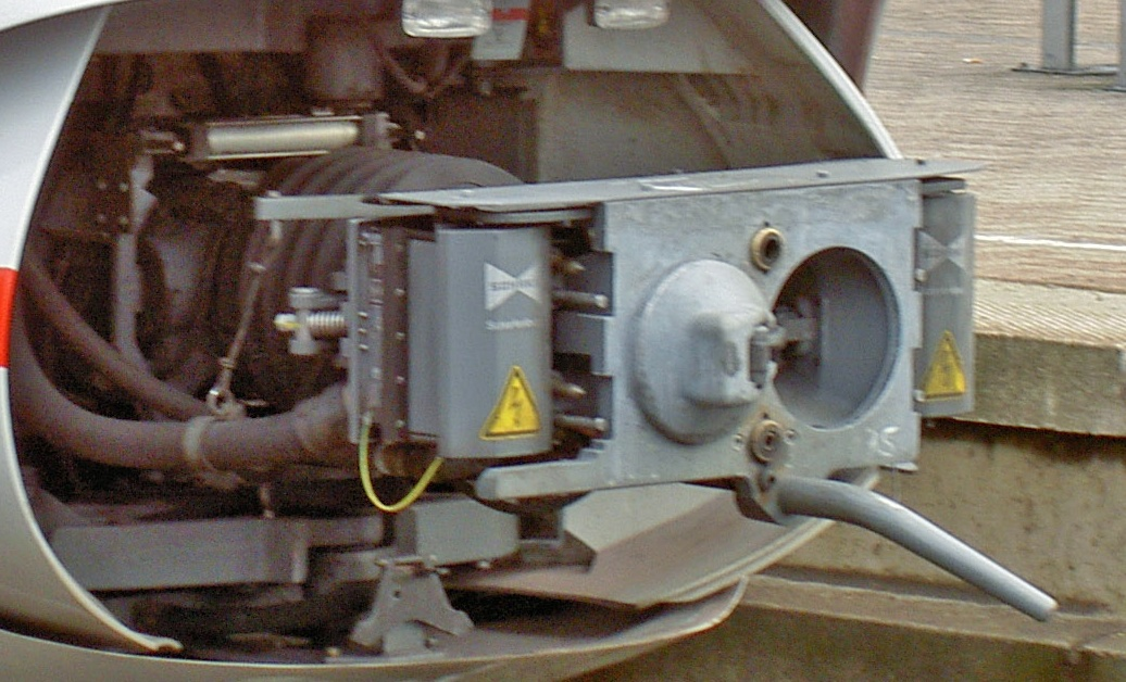 Detail View of Scharfenberg coupler on the ICE3